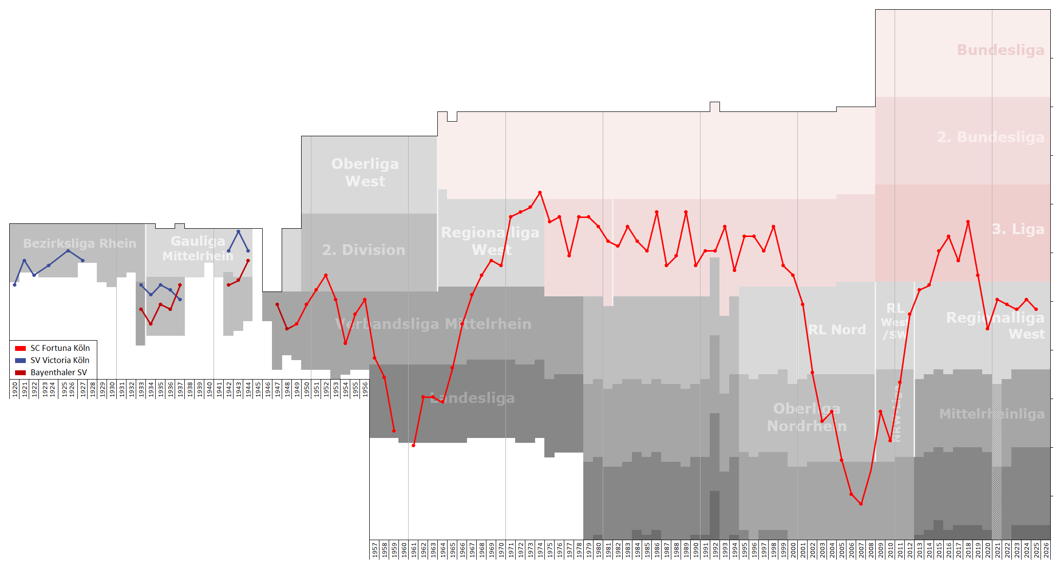 Chart of end-season table positions of Fortuna Köln in the football league system of Germany. Data source: RSSSF, wikipedia, f-archiv.de, fussball.de